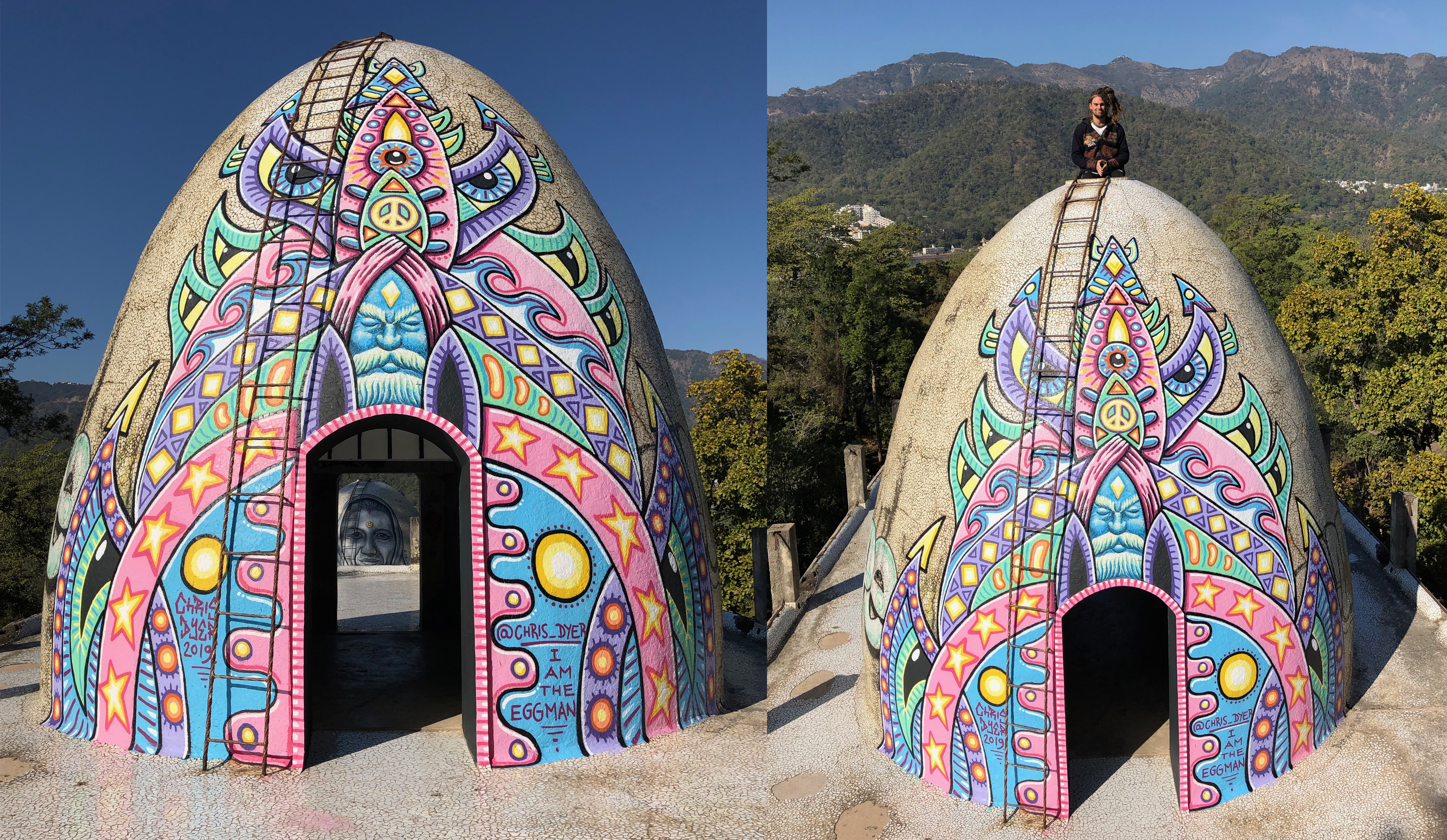 Done in 2019 at the legendary Beatles Ashram.